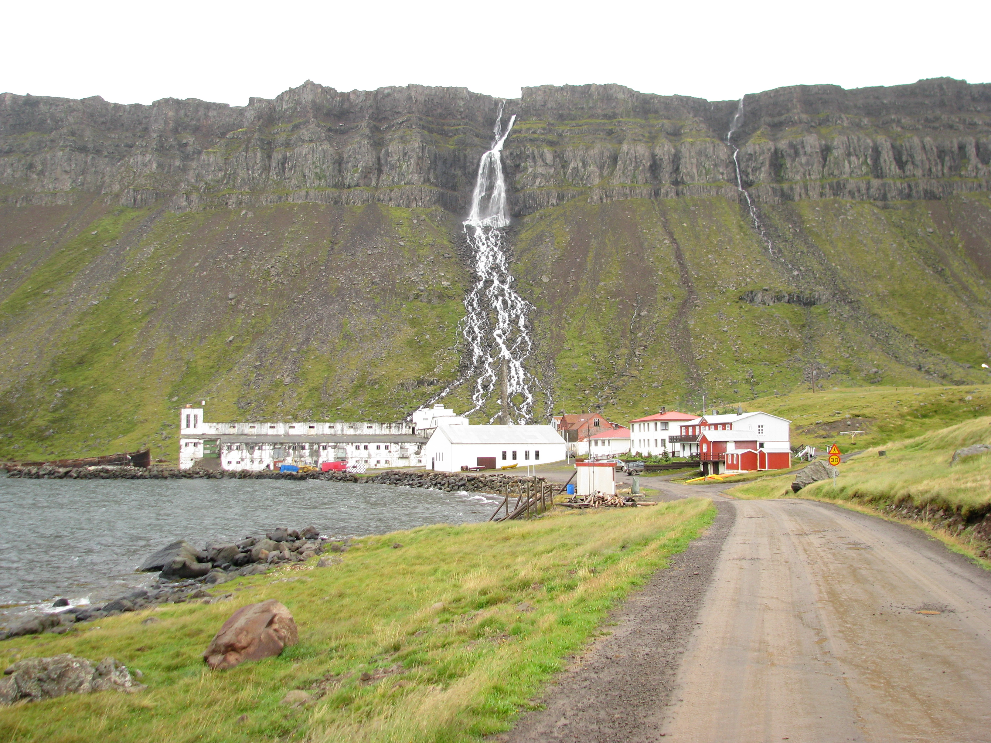 Djúpavík, a place on Iceland.